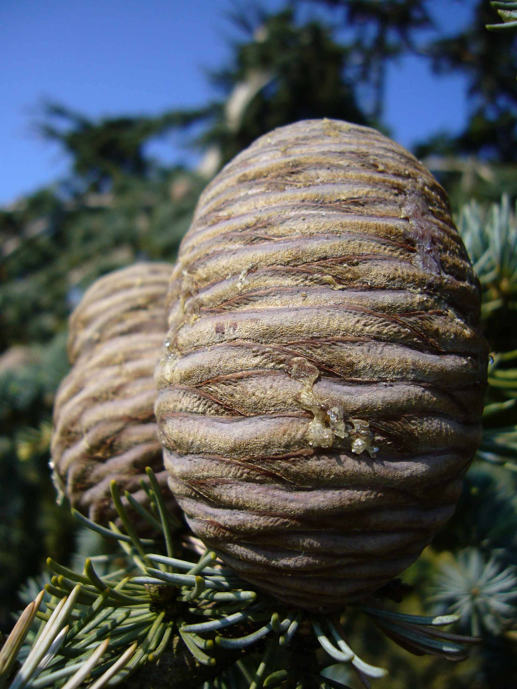 Cedrus libani cones. Cultivated, Kew Gardens.